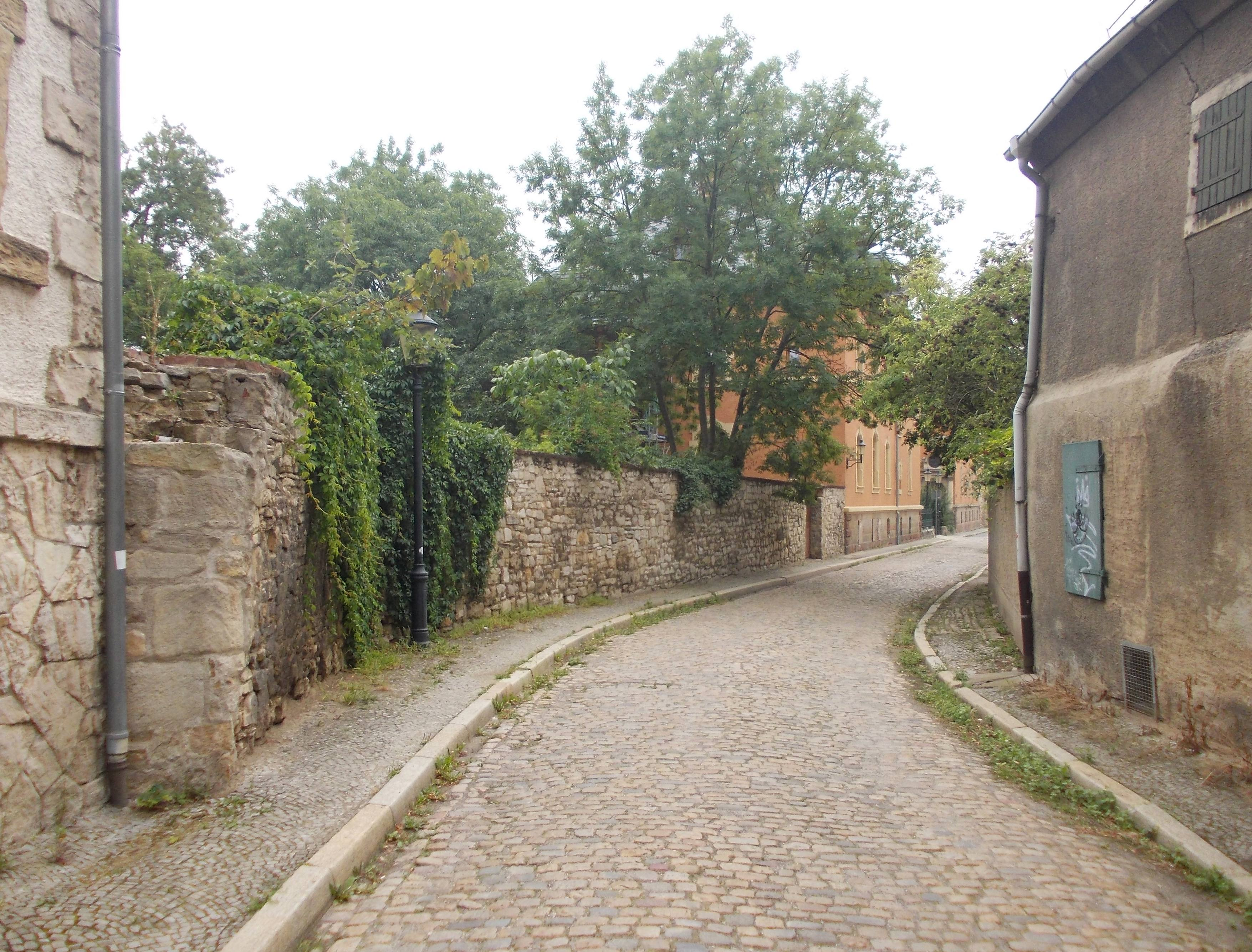 Marienmauer street in Naumburg (district: Burgenlandkreis, Saxony-Anhalt)